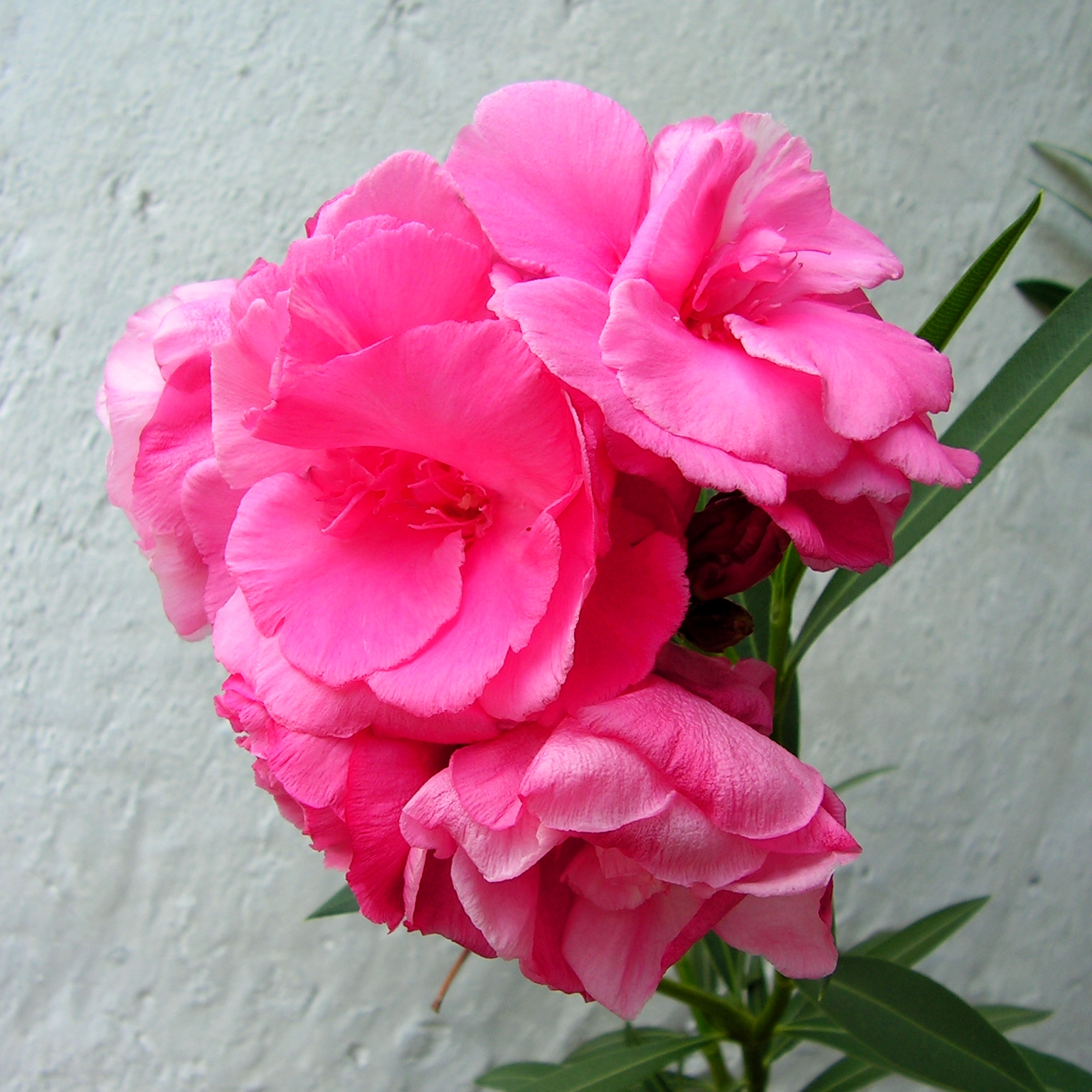 The flowers of Nerium oleander.